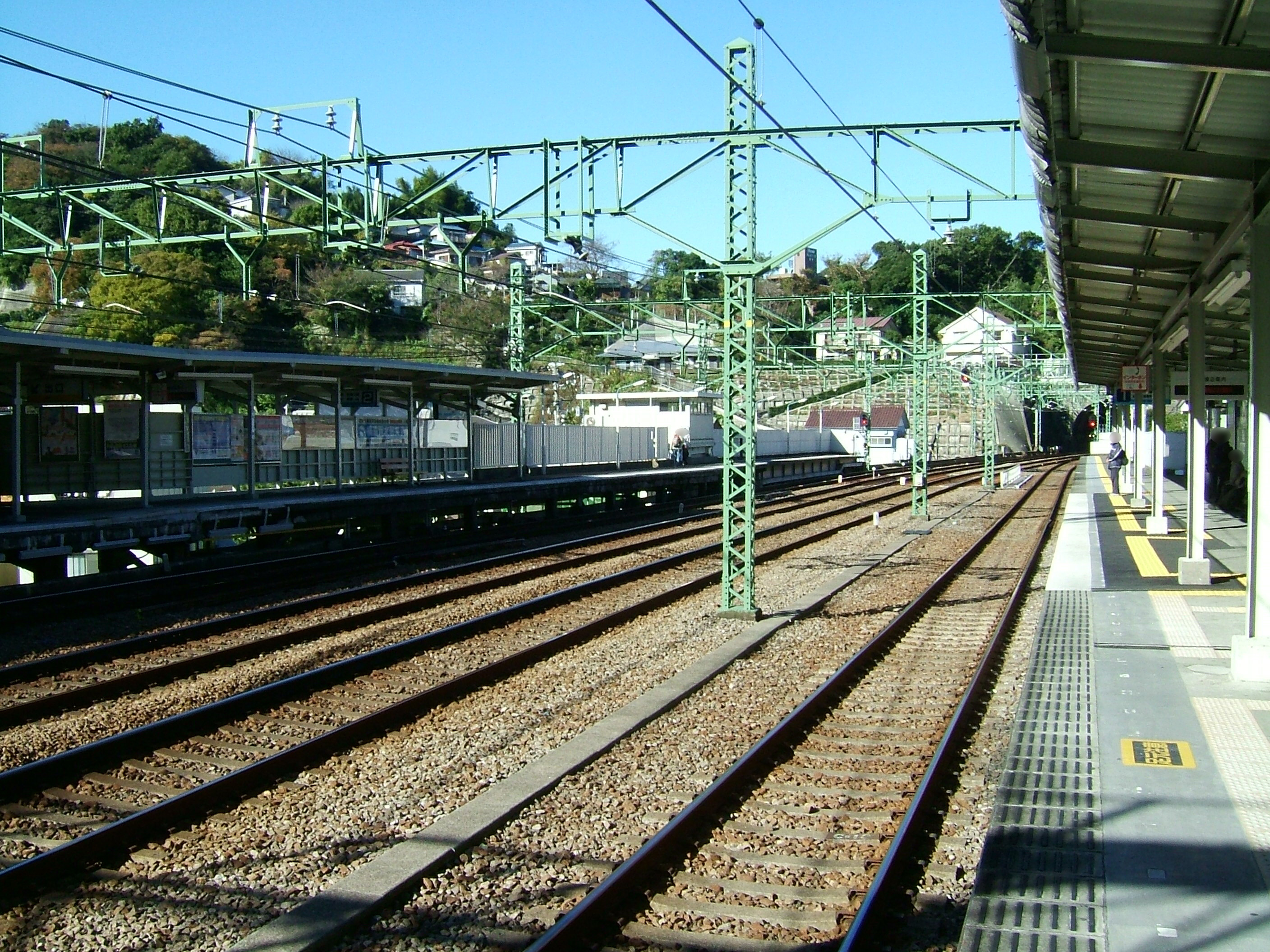 Hemi Station platform (Keihin Electric Express Railway Main Line)